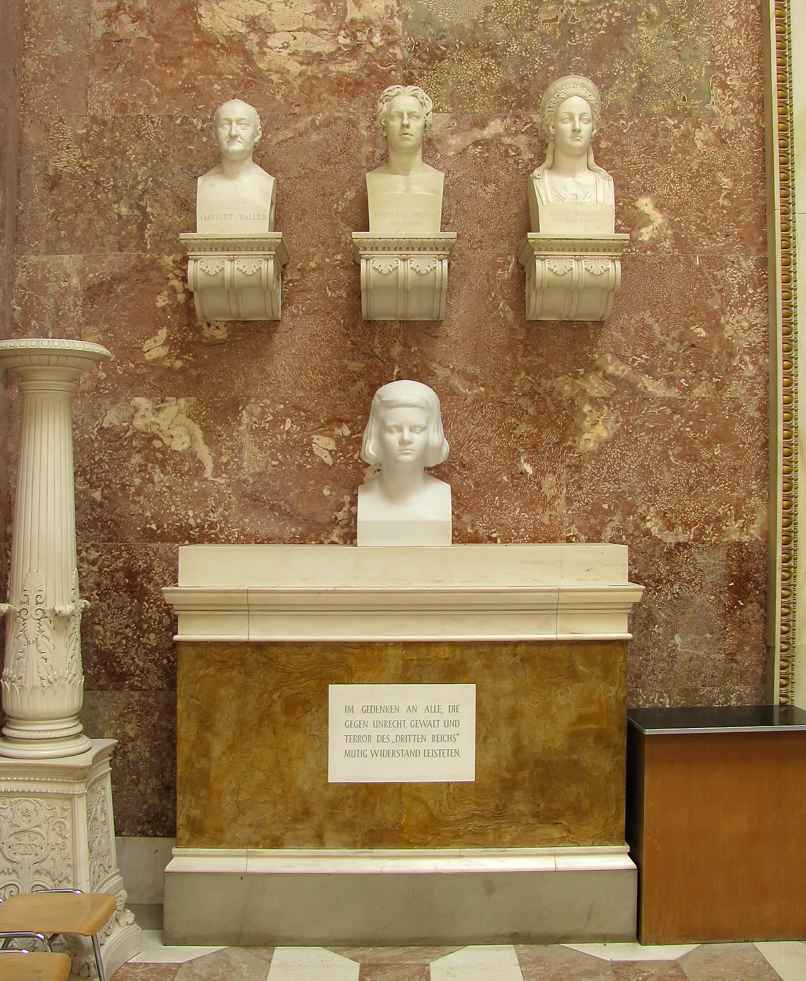 Busts from the Walhalla Memorial: (top from left) Albrecht von Haller (Schadow), Anton Raphael Mengs (Rauch), Maria Theresa (Eberhard); (bottom) Sophie Scholl (Eckert).